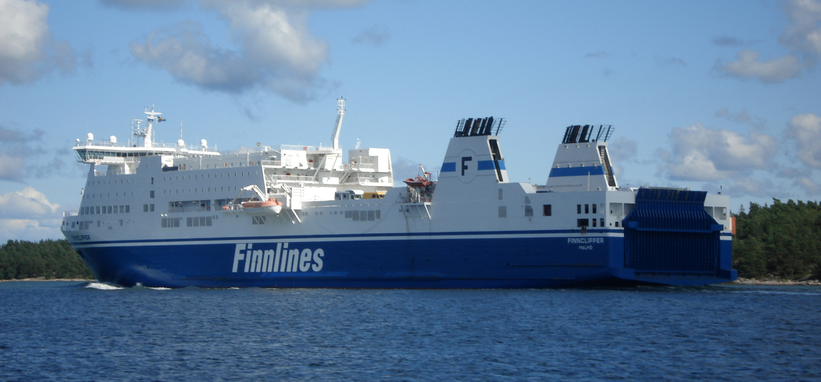 MS Finnclipper is Roll-on/roll-off ship owned by Finnlines. This picture was taken in Korppoo, Länsi-Turunmaa and the ship is heading to Port of Naantali, Naantali Finland.